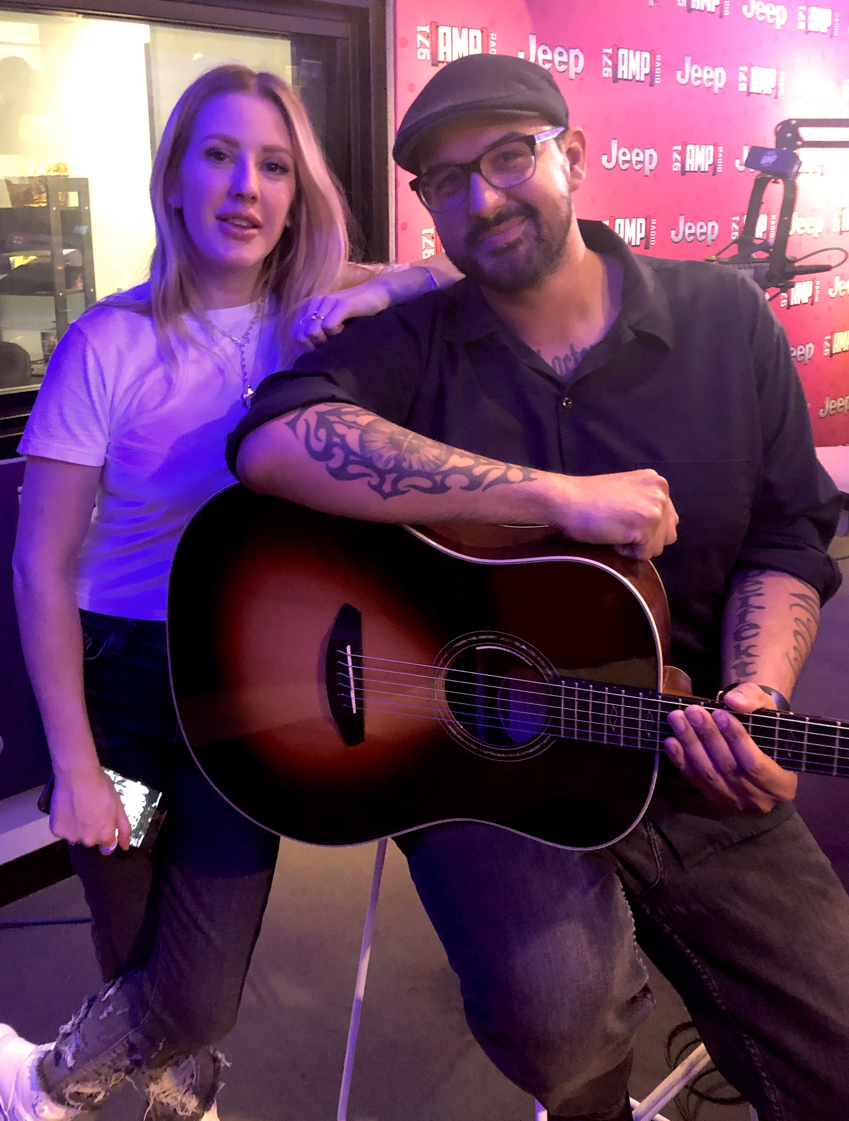 Rod Castro performing with Ellie Goulding at AMP radio.